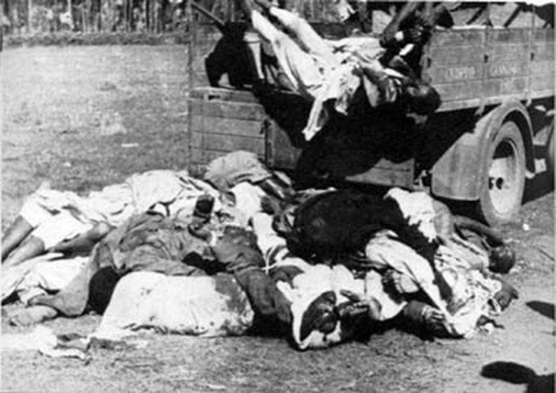 Vittime della strage di Addis Abeba compiuta tra il 19 e il 21 febbraio 1937 Victims of the massacre in Addis Ababa completed between 19 and 21 February 1937